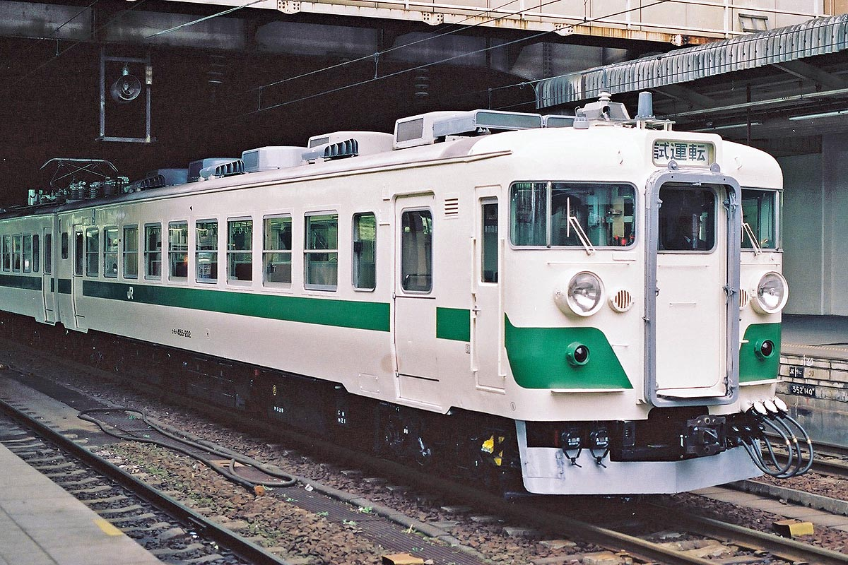 JR East 455 series EMU car KuMoHa 455-202 at Sendai Station